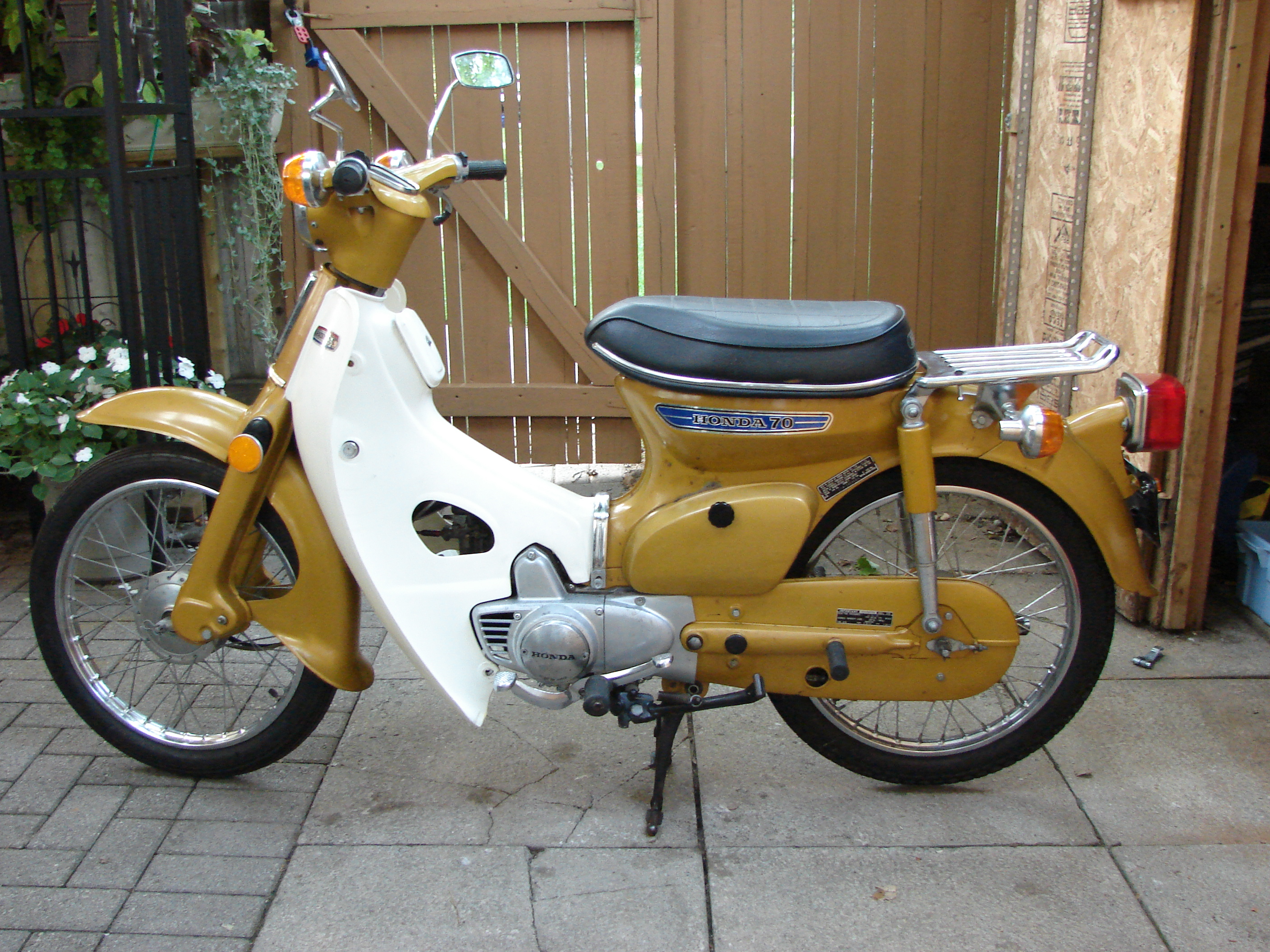 1972 Honda C70 in Burlington, Ontario